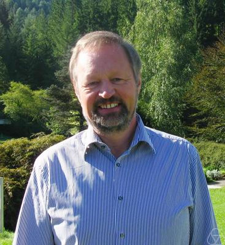 Klaus Hulek, Oberwolfach 2010